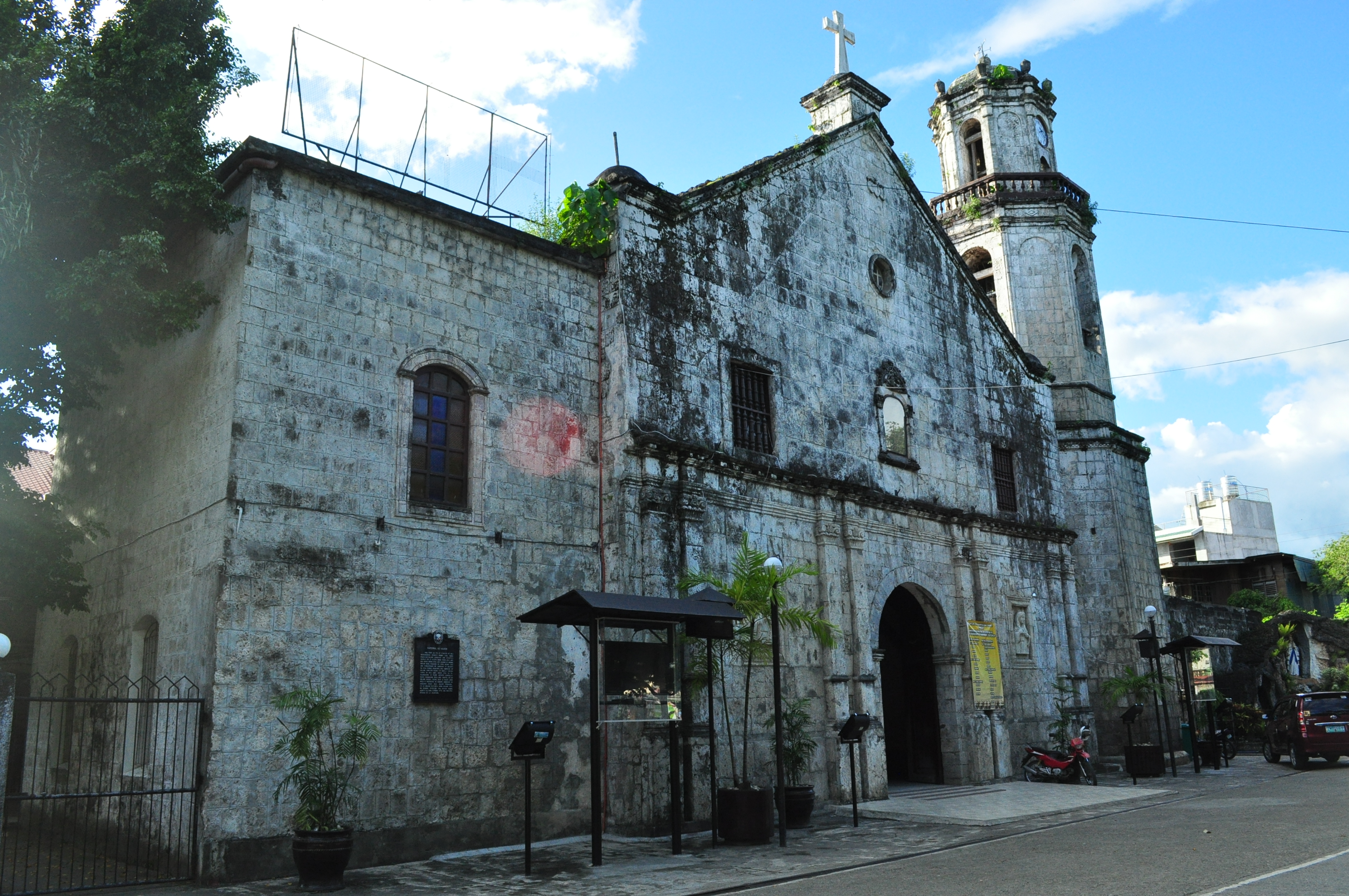 Maasin Cathedral, Southern Leyte